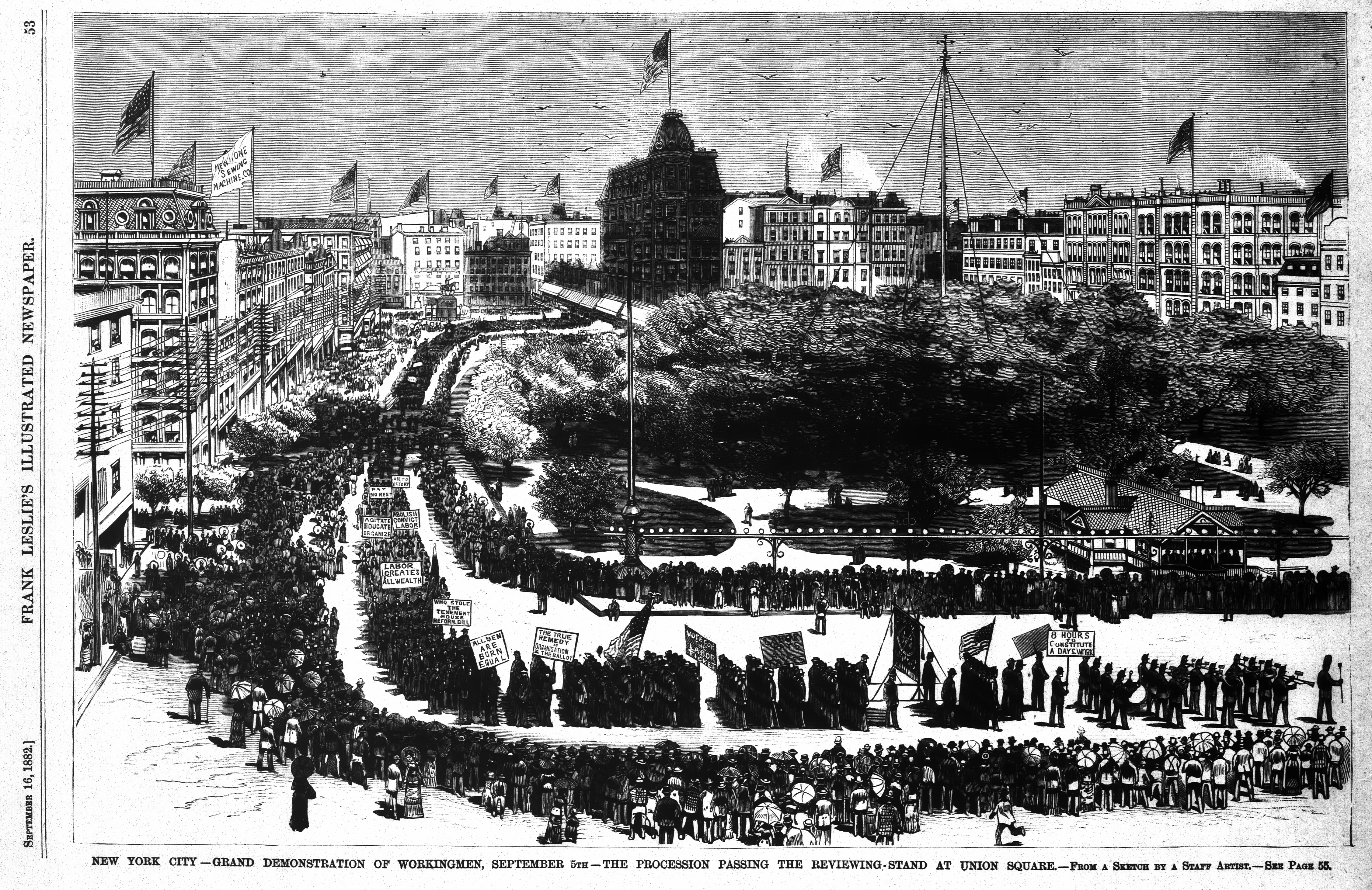 Illustration of the first American Labor parade held in New York City on September 5, 1882 as it appeared in Frank Leslie's Weekly Illustrated Newspaper's September 16, 1882 issue.